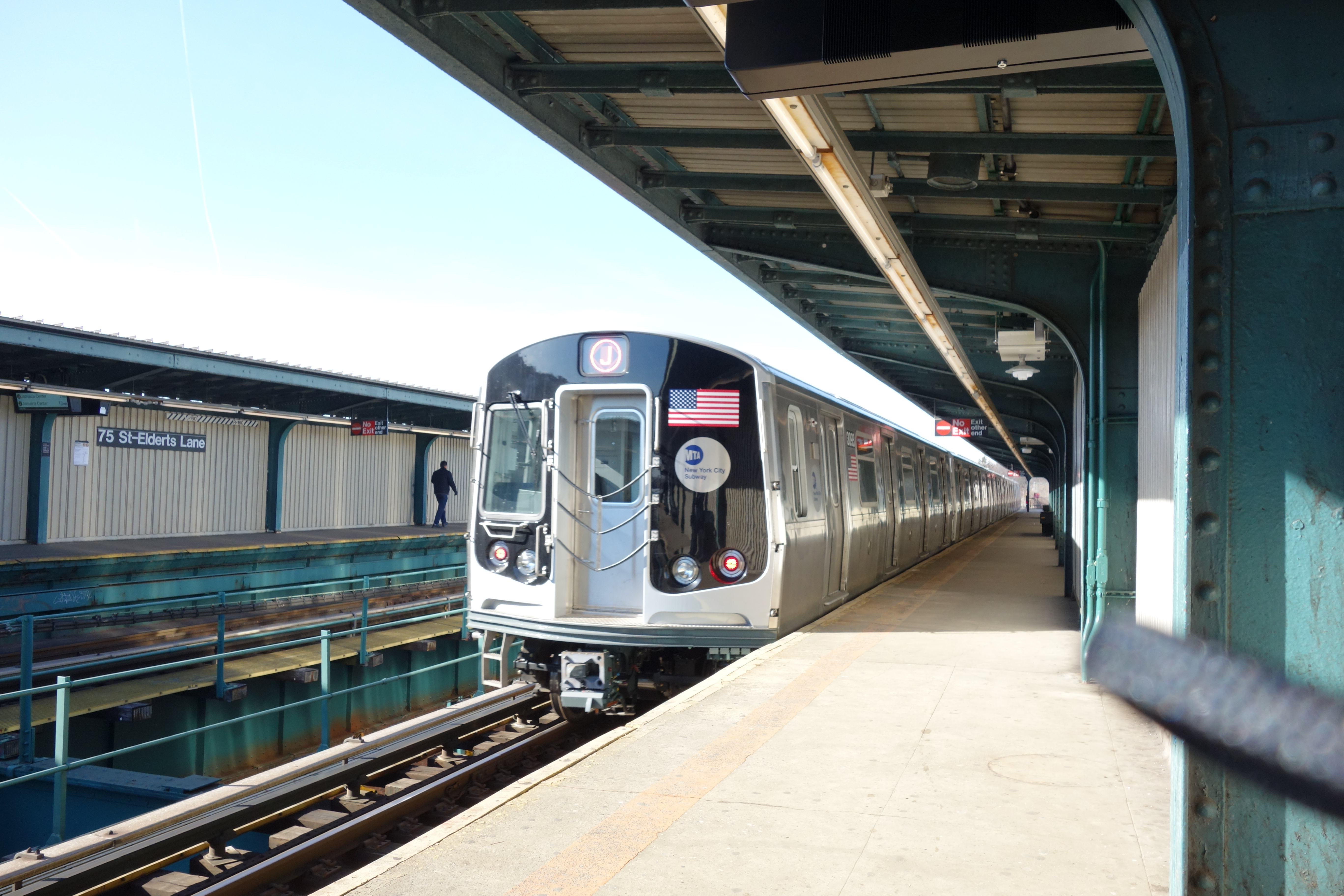 An R179 in Manhattan-bound J service leaving the 75th Street–Elderts Lane station in Woodhaven, Queens/Cypress Hills, Brooklyn.